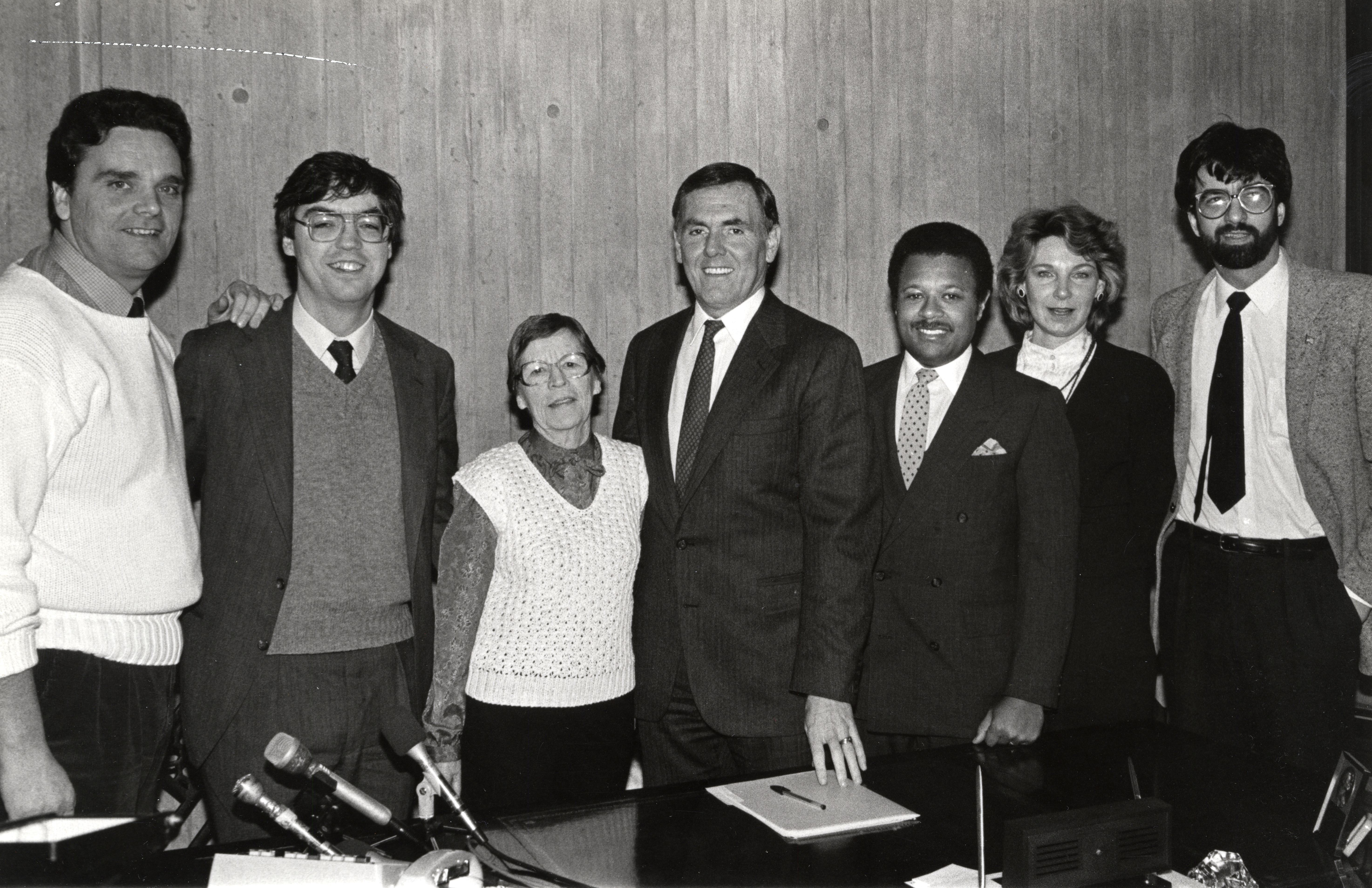 Title: State Representative Kevin Fitzgerald, Councilor Brian McLaughlin, Evelyn Randall, Mayor Raymond L. Flynn, Councilor Bruce Bolling, Councilor Maura Hennigan, Councilor David Scondras Creator: Mayor's Office - City Photographer Date: circa 1984-1987 Source: Mayor Raymond L. Flynn records, Collection #0246.001 File name: RF_0345 Rights: Copyright City of Boston Citation: Mayor Raymond L. Flynn records, Collection #0246.001, City of Boston Archives, Boston